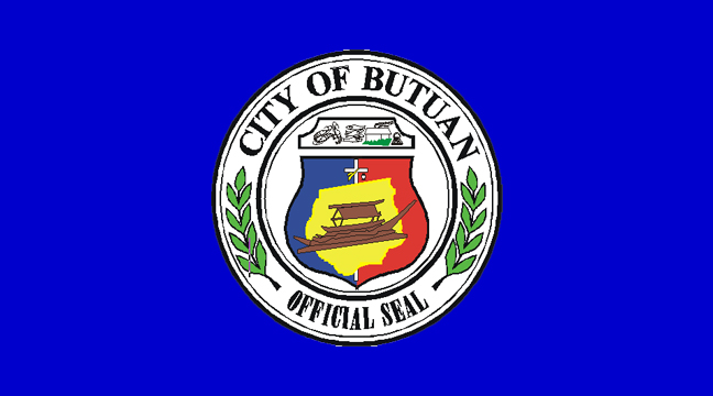 This is the official flag used by the City Government of Butuan.